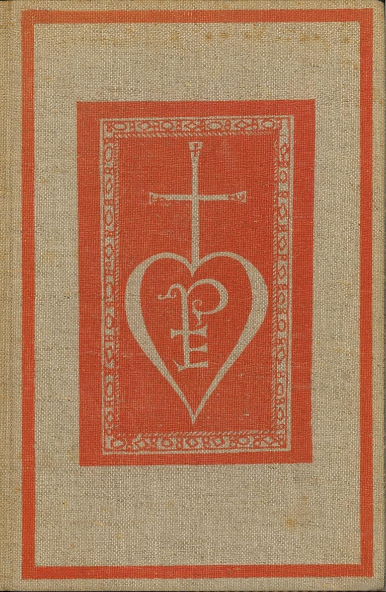 The cover of 'Die Balladen und laſterhaften Lieder des Herrn François Villon in deutſcher Nachdichtung von Paul Zech'